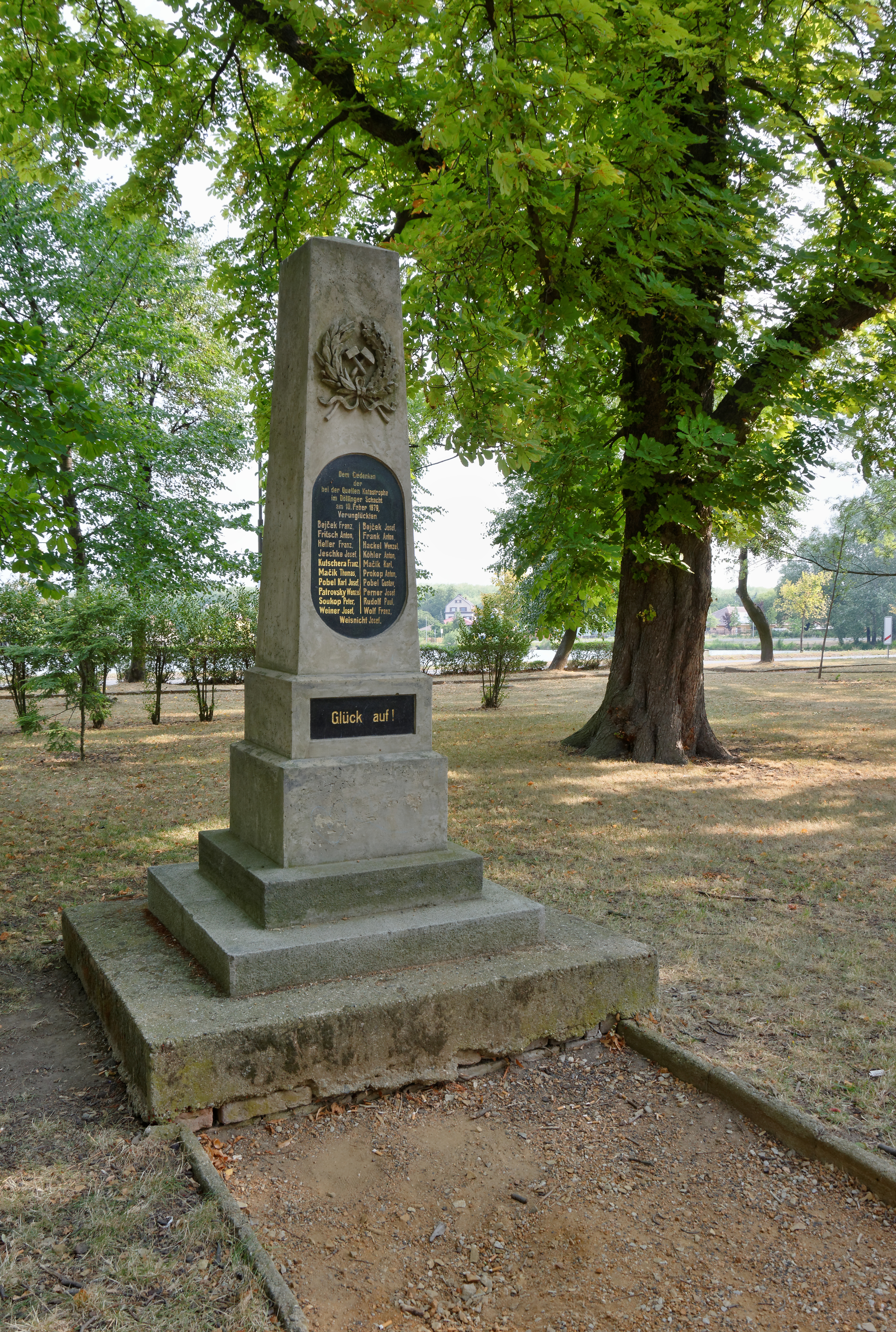 Duchcov, Monument to the mine accident in the Döllinger shaft.